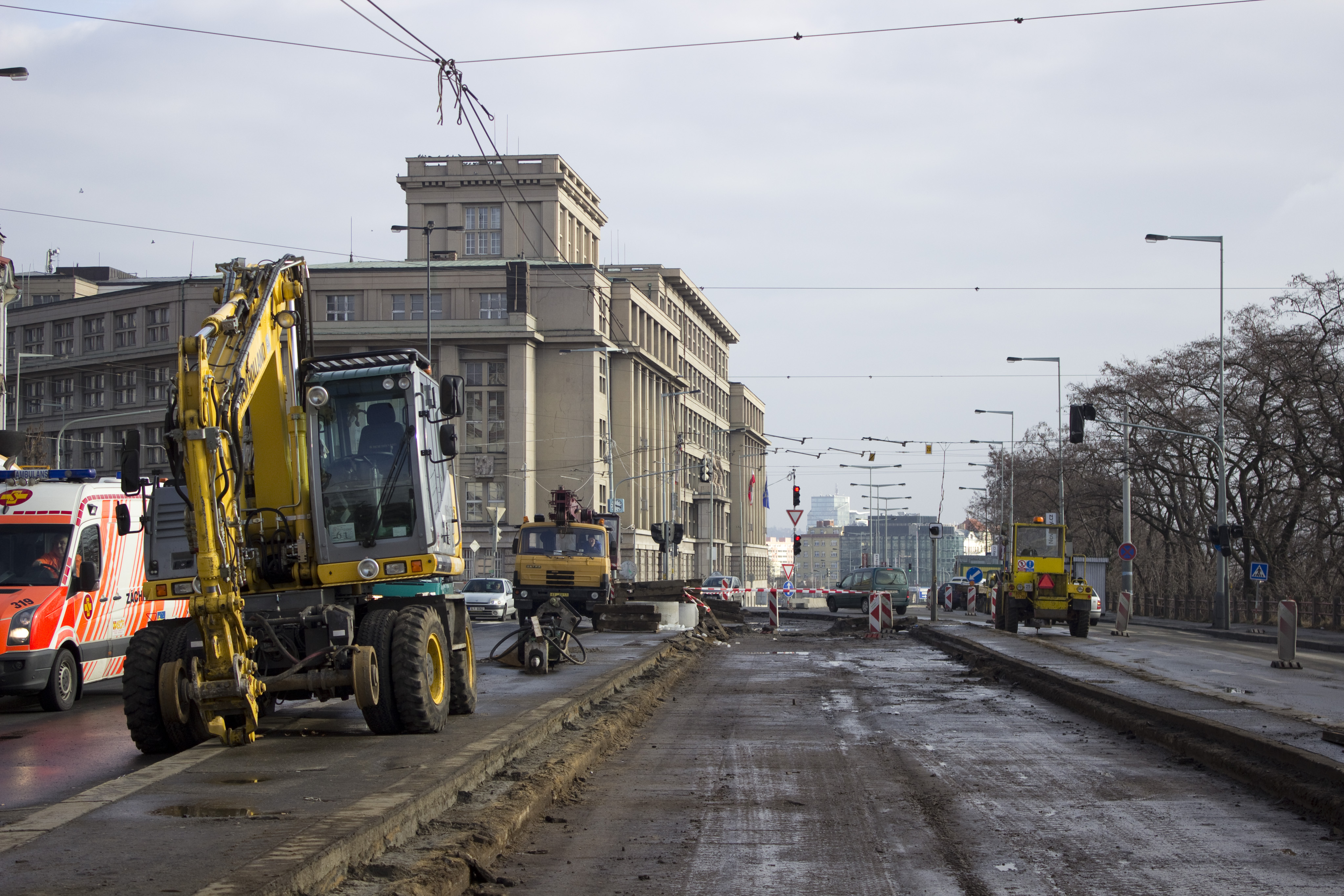 Reconstruction of tram track Strossmayerovo náměstí – Nábřeží Kapitána Jaroše, Prague